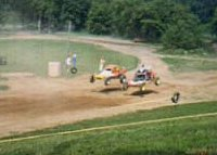 My buggy in 1999.